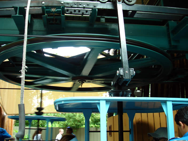 The "bullwheel" at Skyride's Stanleyville station.